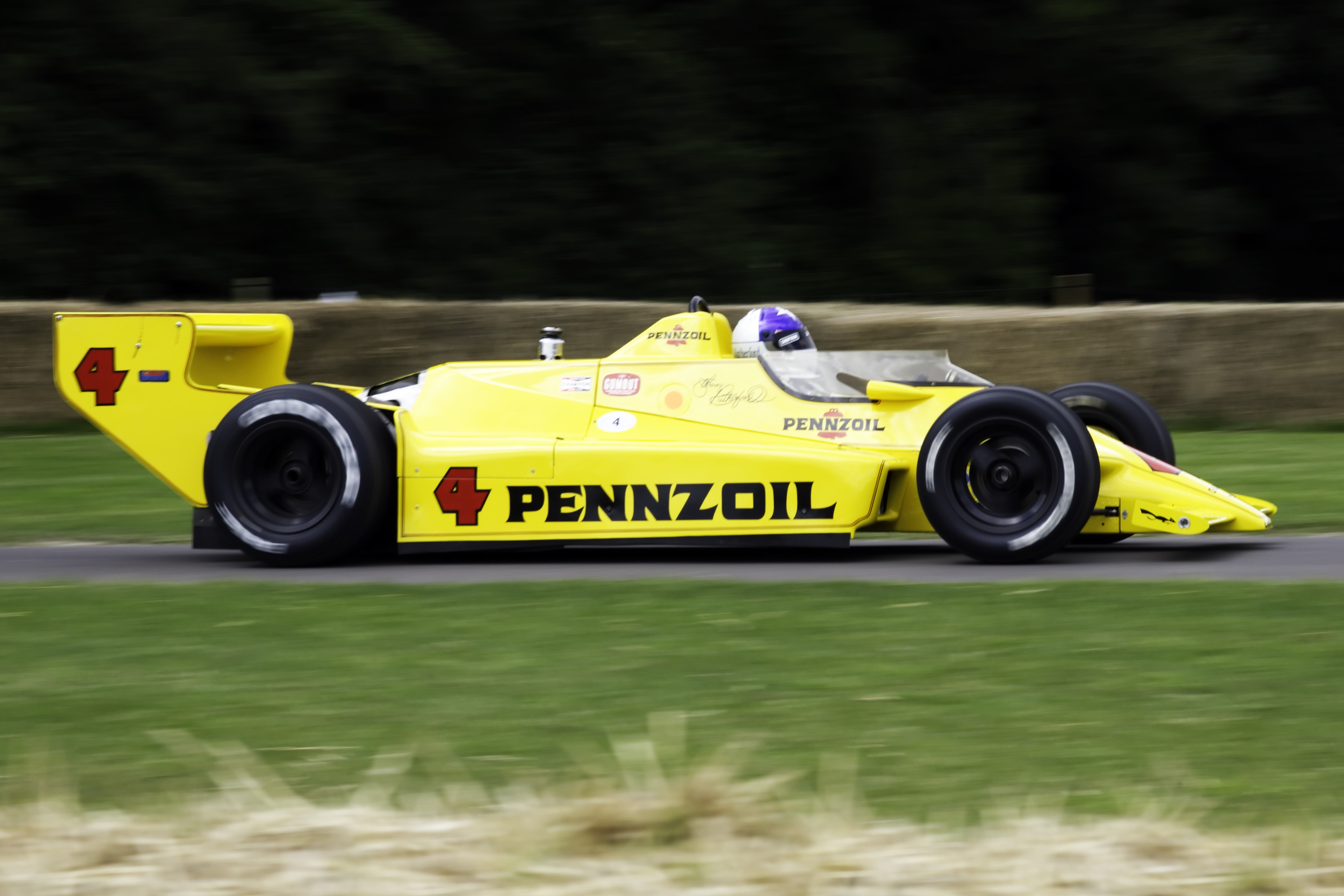 Chaparral-Cosworth 2K